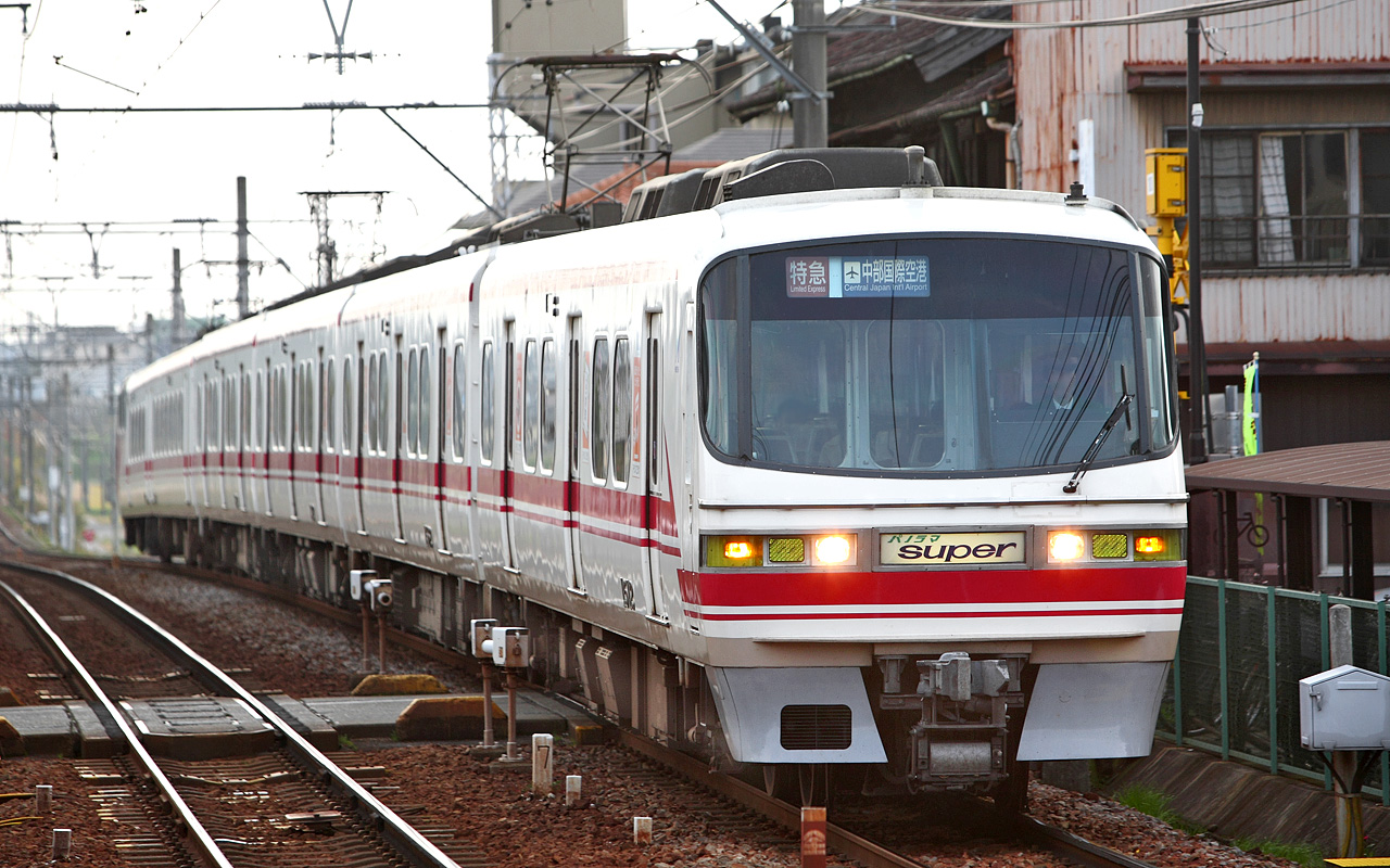 Meitetsu "Panorama Super" 1000/1200 series EMU set 1112 approaching Fujimatsu Station